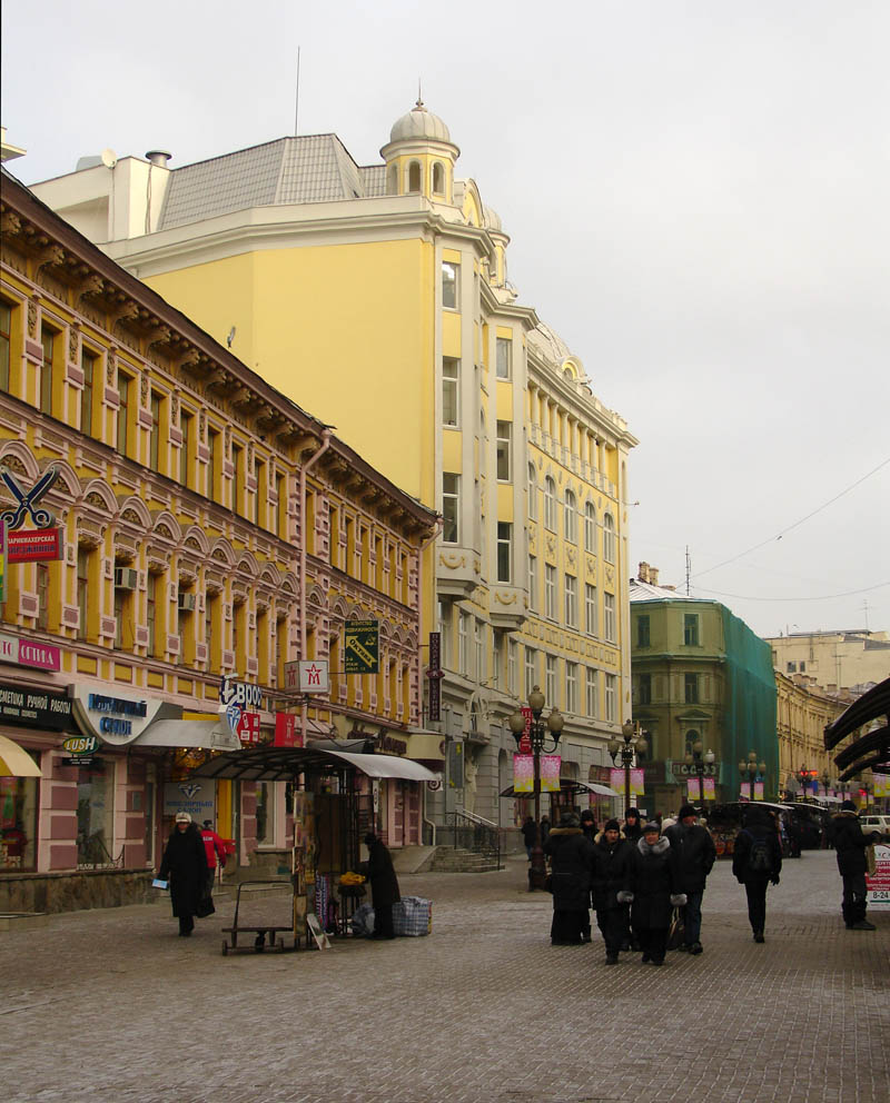 Arbat Street, Moscow. Unusually few people - between New Year and (orthodox) Christmas the city looks deserted. The headquarters of Aeroflot are located in the light yellow building.